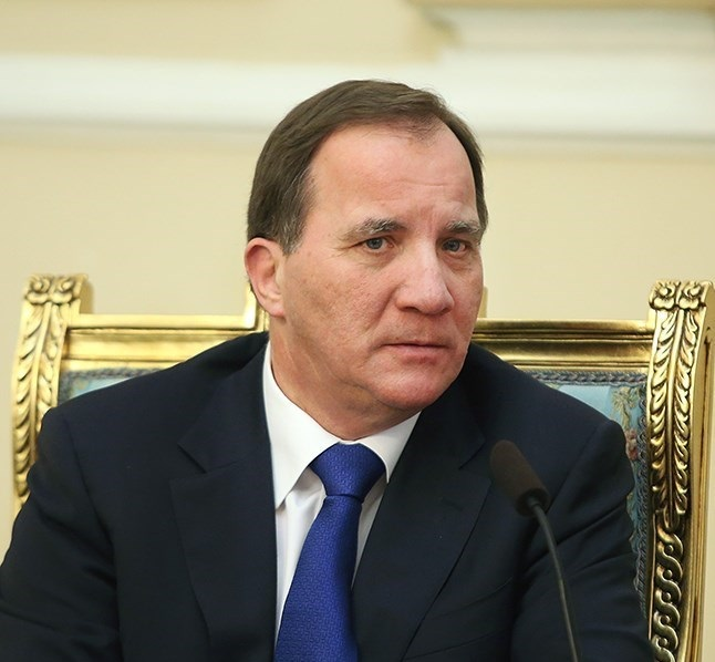 Ali Larijani, chairman of Iran's parliament meets with Swedish Prime Minister Stefan Löfven in the Parliament building, Tehran